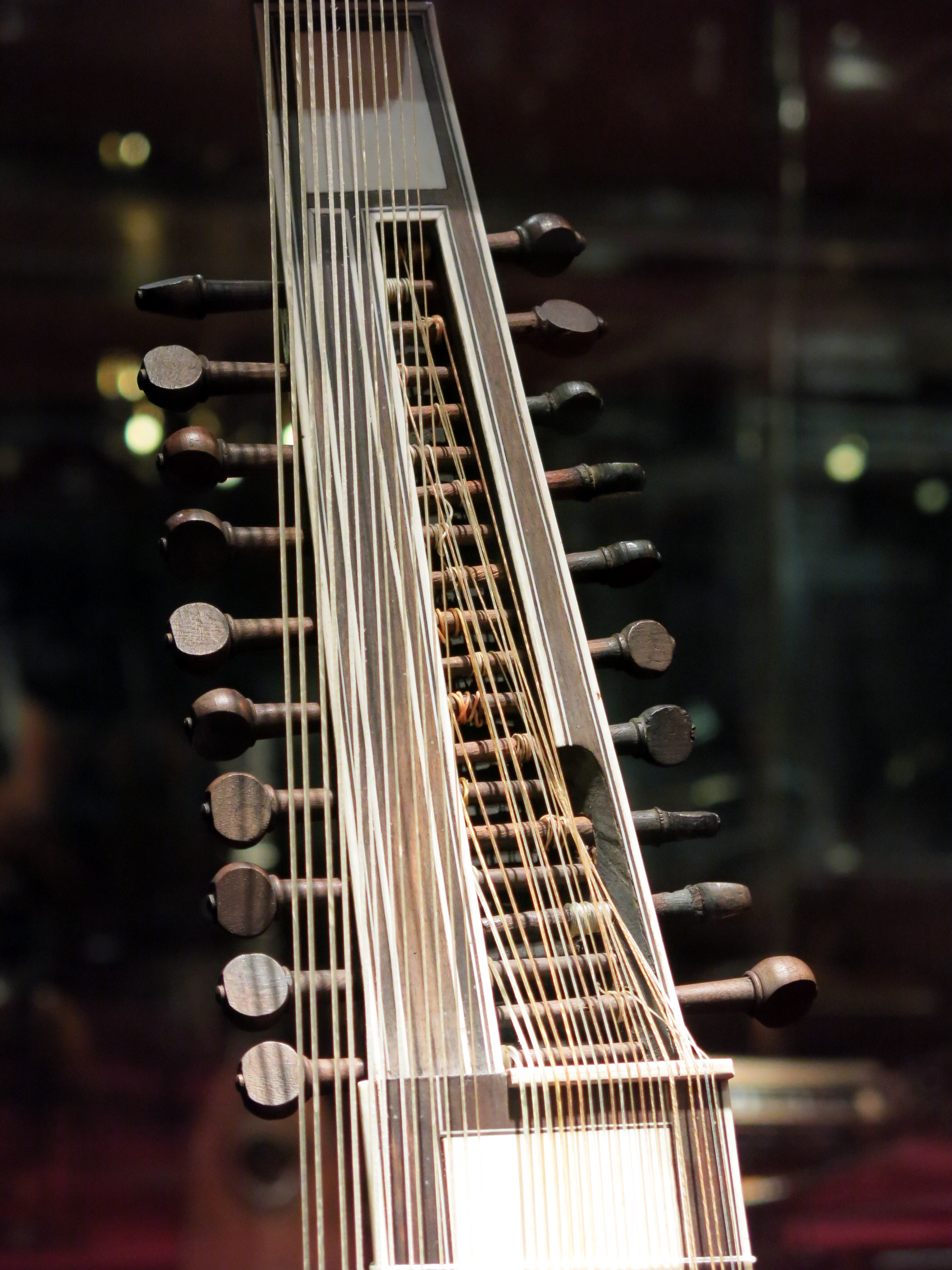 Archlute, Magnus Tieffenbrucker, Venetia, Museu de la Música de Barcelona References MDMB 404: arxillaüt, Magnus Tieffenbrucker (1589-1621). Catalogue online, Museo de la Música.